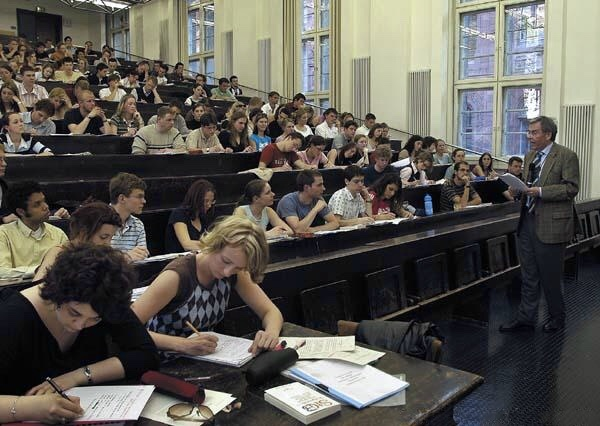 I'm staff of the copyright holding organization and clarified the copyright status of the pictures - in the uploaded low-resolution version - personally with the authoritative press office of the university. Fred Plotz (talk) 12:28, 10 February 2008 (UTC)